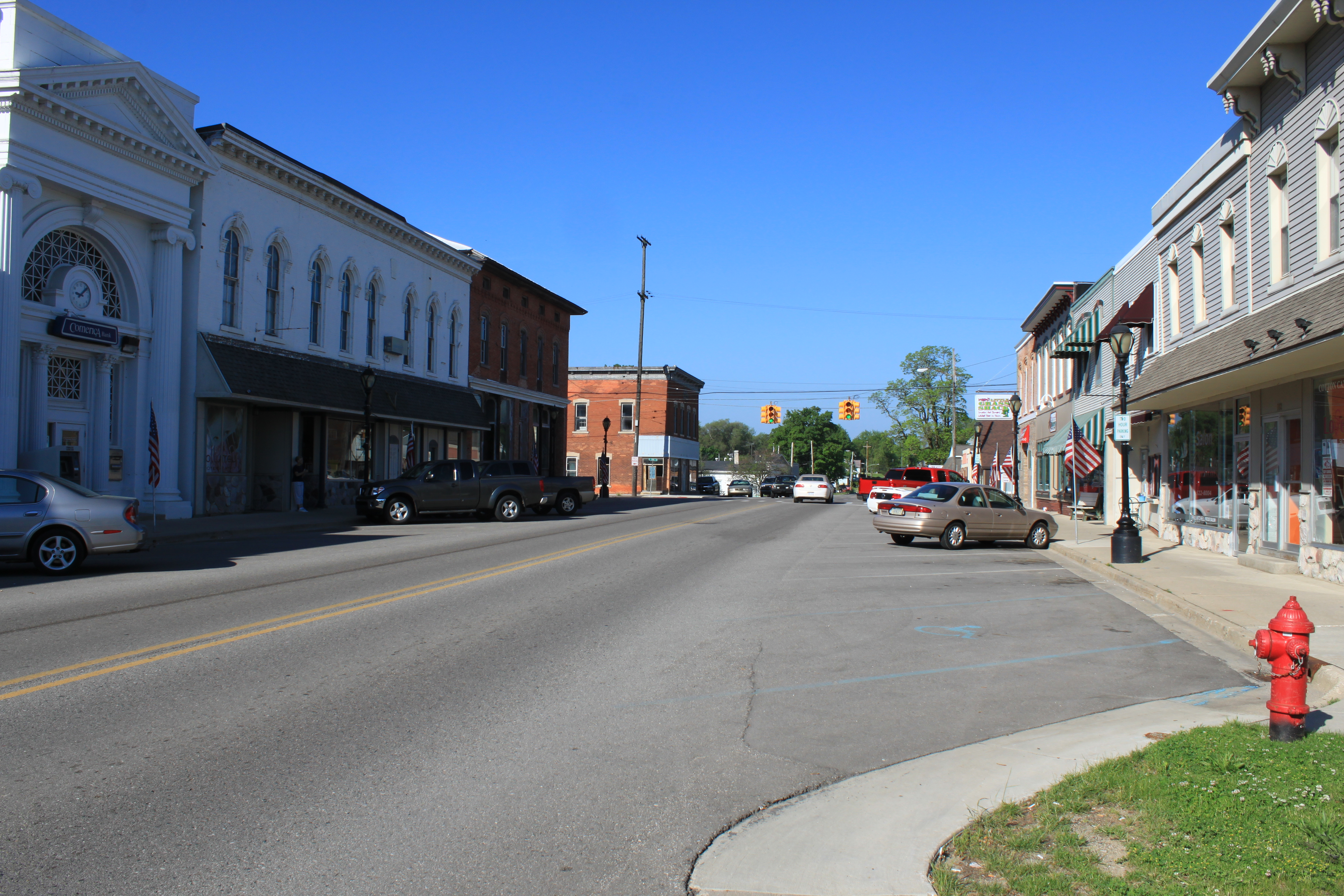 Downtown Grass Lake Michigan, Michigan Ave., facing west